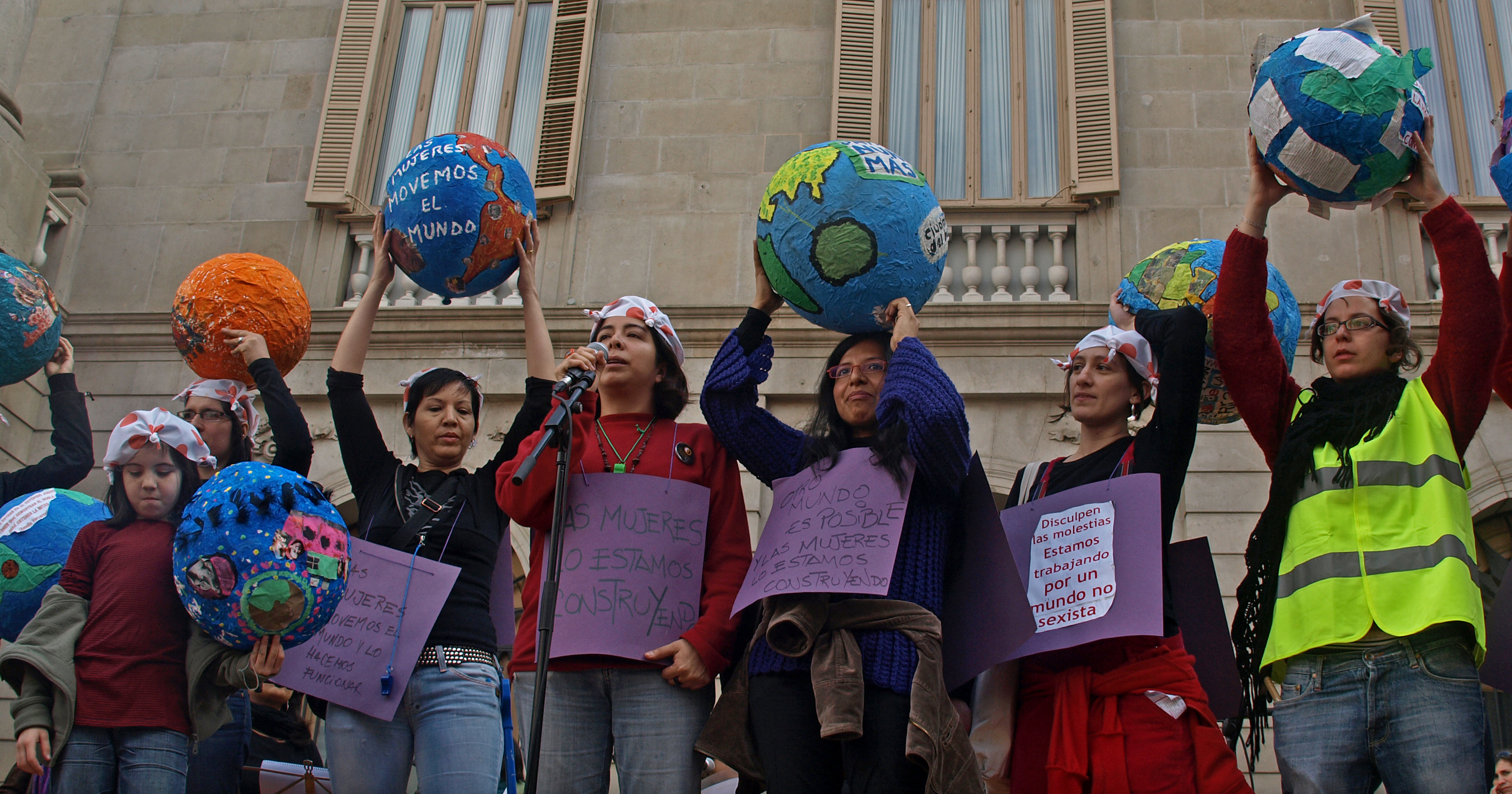 International Women's Day in Barcelona, Spain (2009). Some mottos: "Women move the world", "Another world is possible, and women are building it", "We apologize for the inconvenience: we are building a non-sexist world"